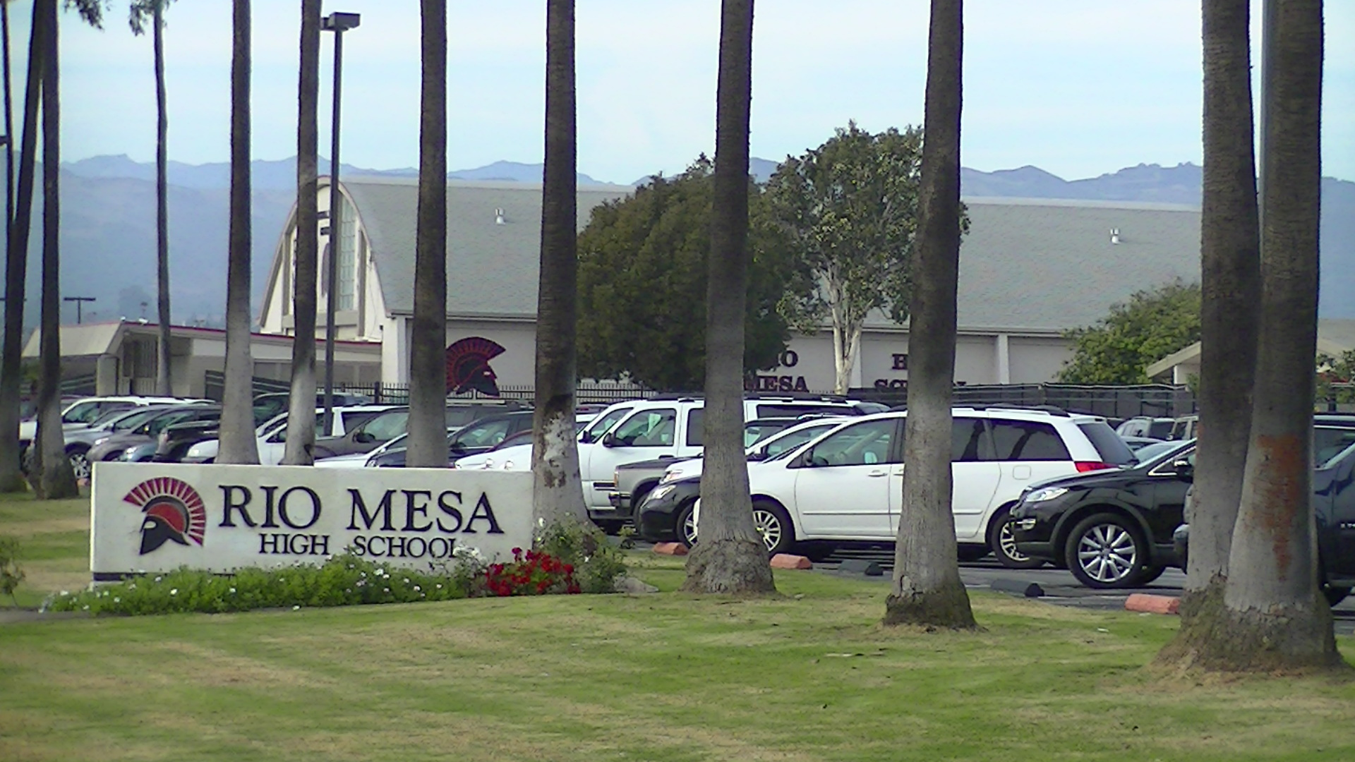 Rio Mesa High School, Oxnard California